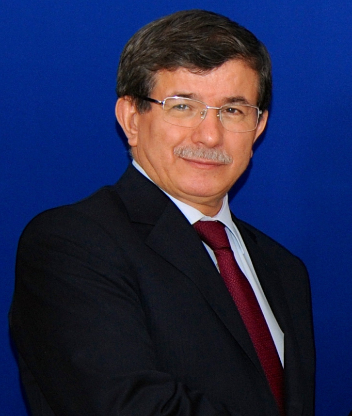 Ahmet Davutoğlu, Ministry of Foreign Affairs of Republic of TurkeyTürkçe: Ahmet Davutoğlu, Türkiye Cumhuriyeti Dışişleri Bakanı